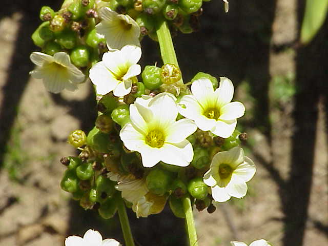 Species: Sisyrinchium striatum Family: Iridaceae Image No. 1